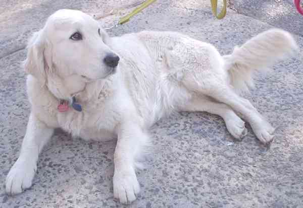 Spice, a Golden Retriever resident in South Turramurra, Sydney, Australia.